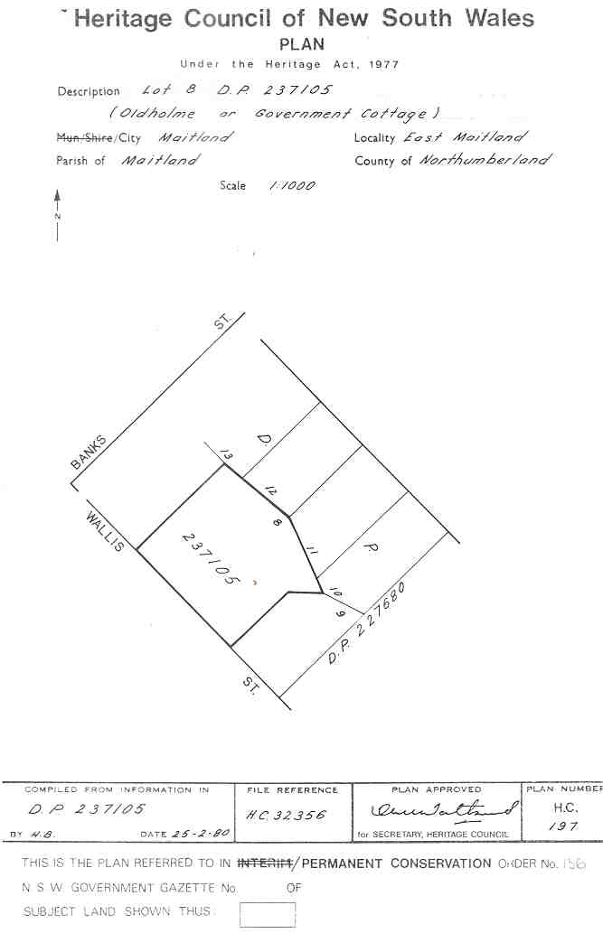 Oldholme: PCO Plan Number 136